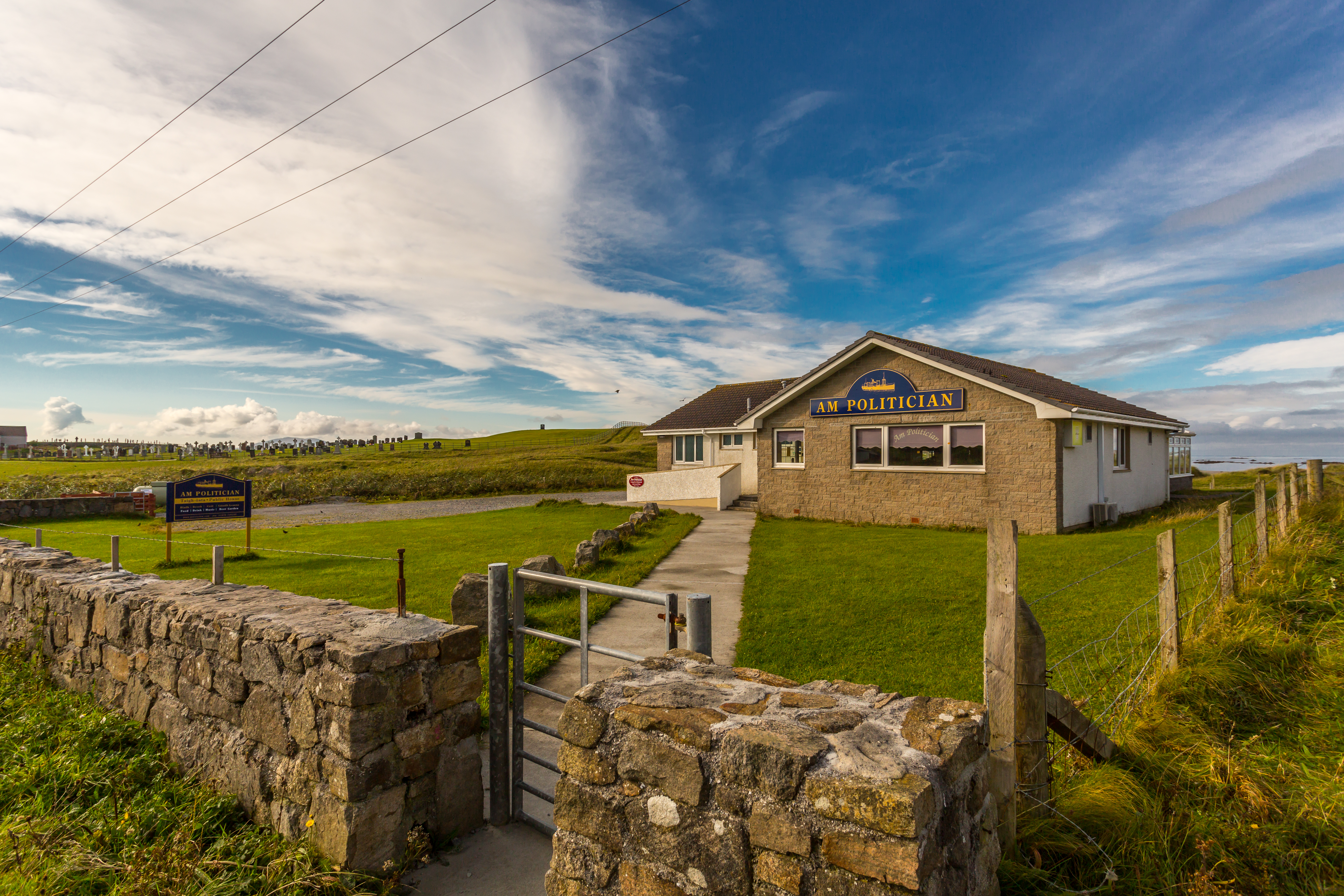 The Politician